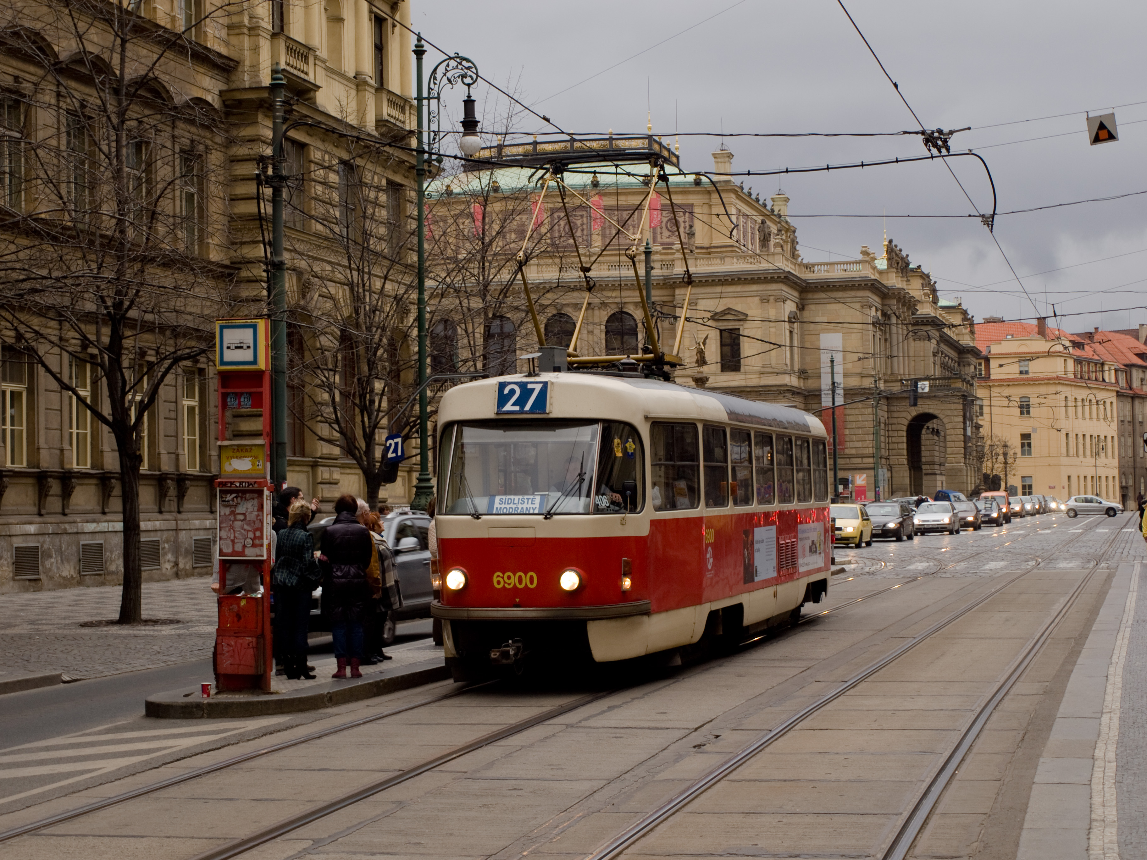 Staroměstská, Tatra T3 registration number 6900 at line 27, Prague